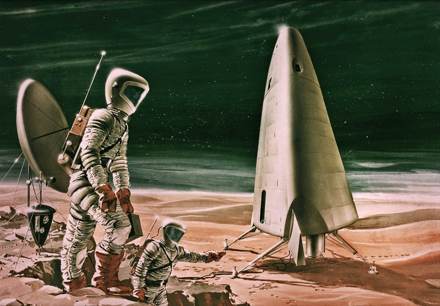 Artist's conception of the Mars Excursion Module (MEM) proposed in a NASA Study in 1964. Dixon, Franklin P. (June 12, 1964). "Summary Presentation: Study of a Manned Mars Excursion Module". Proceeding of the Symposium on Manned Planetary Missions: 1963/1964 Status. Huntsville, Alabama: NASA George C. Marshall Space Flight Center. p. 470. NASA-TM-X-53049; 64N-26979.